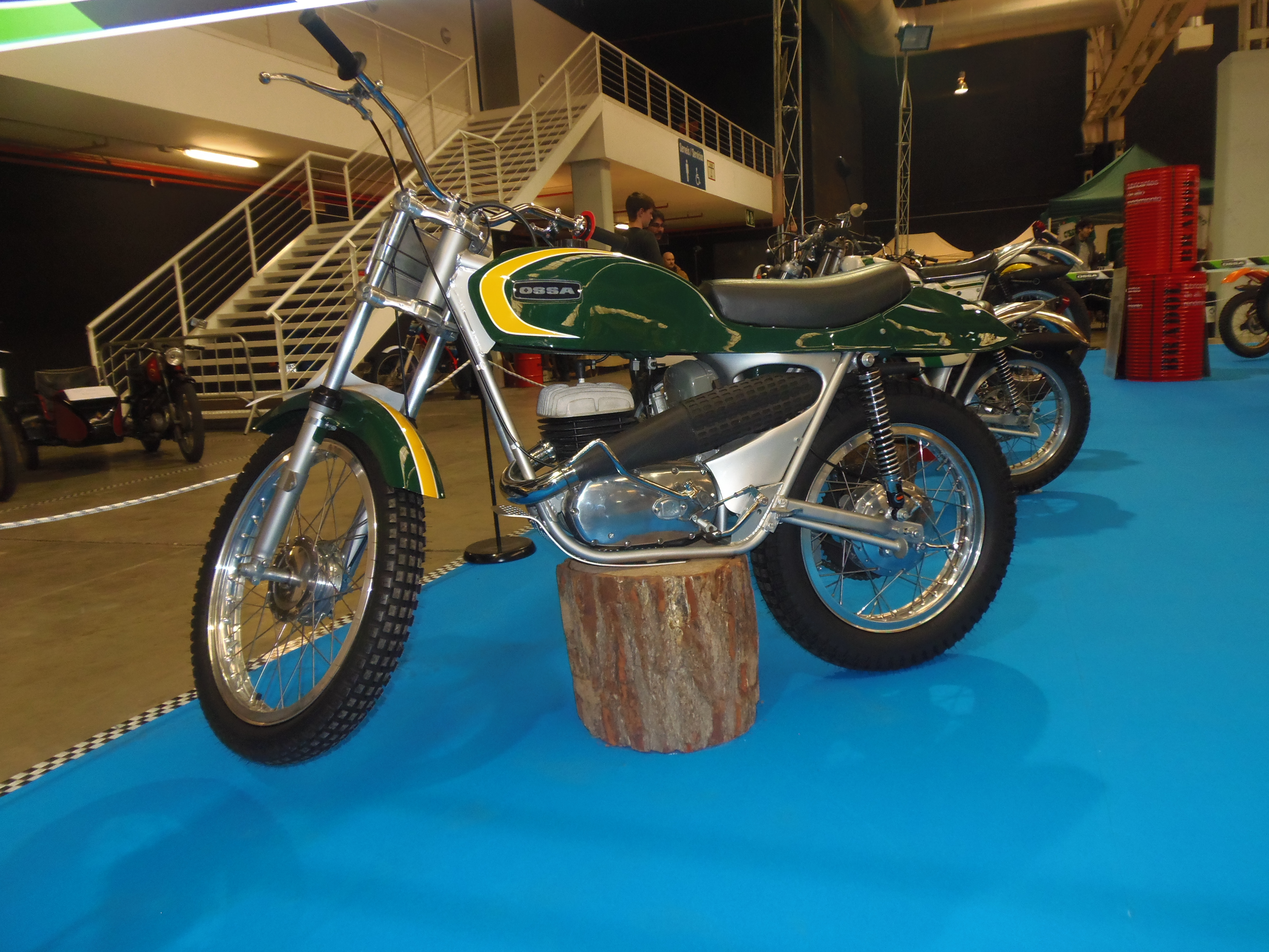 Ossa Pluma 250, 1969